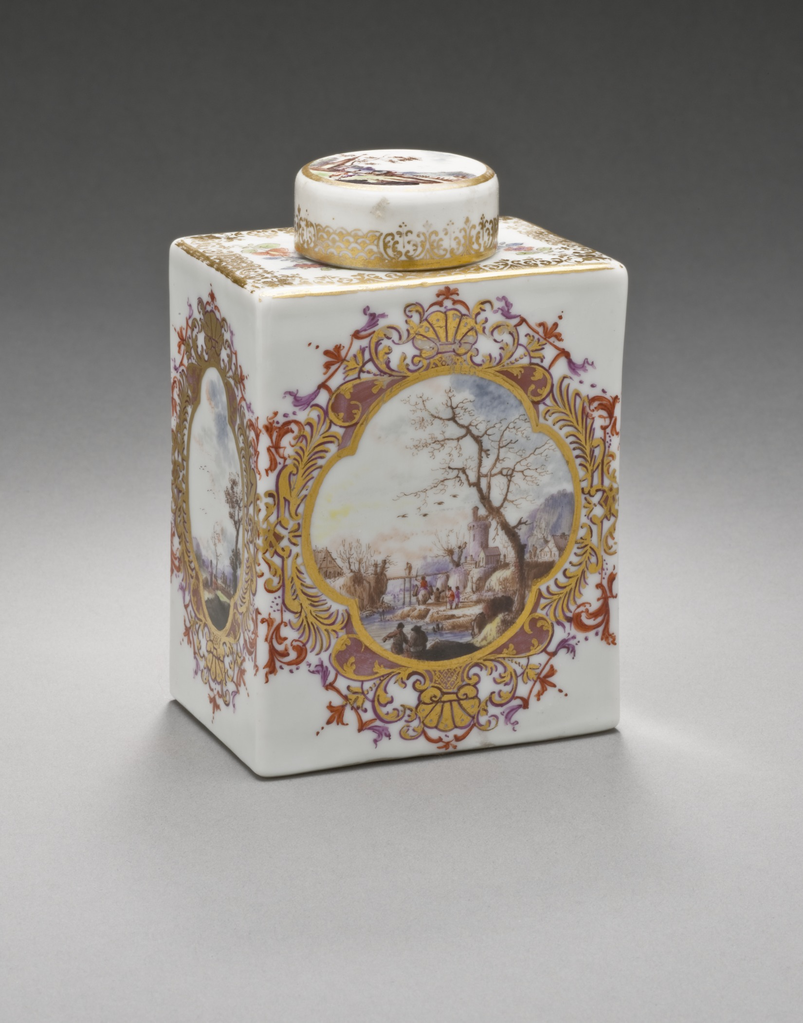 Germany, circa 1735 Furnishings; Serviceware Porcelain Gift of Mrs. Alfred Stiassni (55.32.7a-b) Decorative Arts and Design Currently on public view: Hammer Building, floor 3